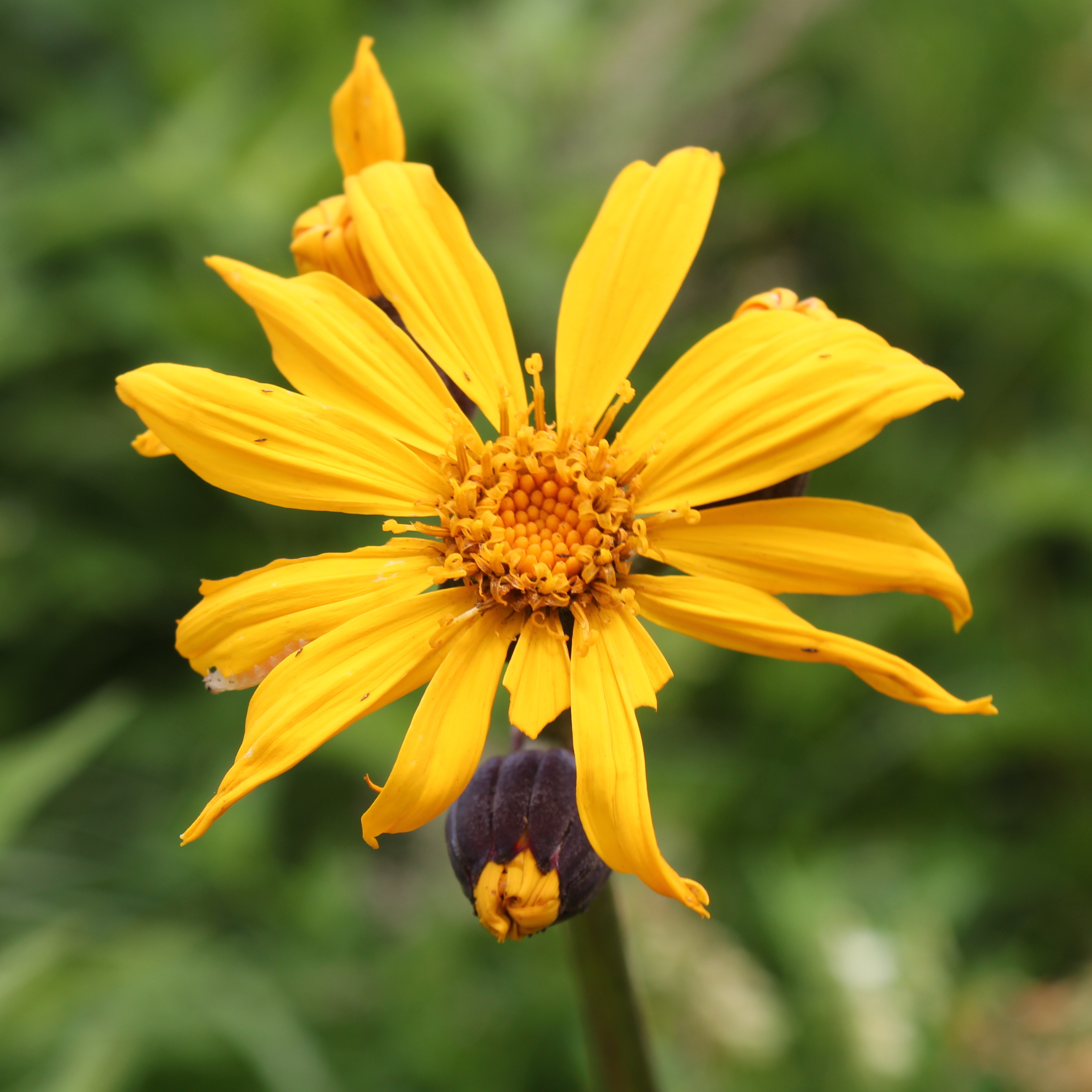 Ligularia dentata in Mount Shiroumayari, Hakuba, Nagano prefecture, Japan.